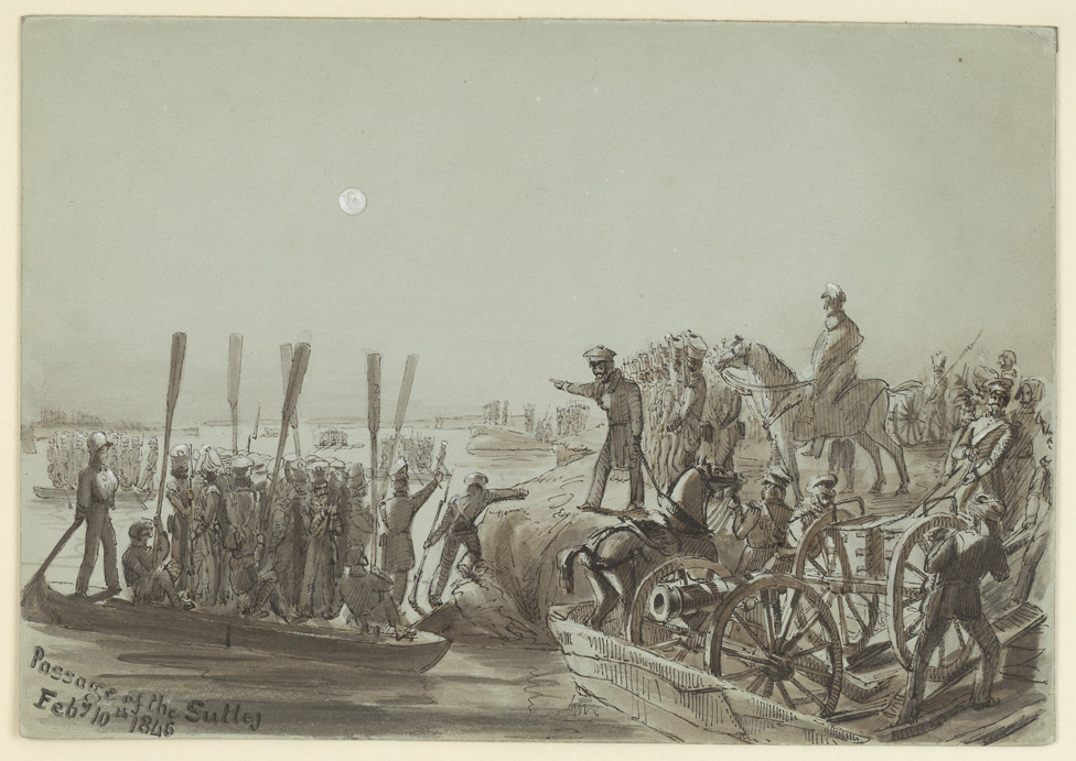 Pen and ink drawing of British troops crossing the Sutlej River in boats by Sir Henry Yule, dated 10 February 1846. Inscribed on the front in water-colour is: 'Passage of the Sutlej. Feby 10, 1846.' Sir Henry Yule (1820-1889) served with the Bengal Engineers in India from 1840 to 1862. From 1845 to 1849 he worked in the North West Provinces restoring and developing the old Mughal irrigation system. Work on this project was interrupted by the First and Second Anglo-Sikh Wars (1845-6 and 1848-9) in which he participated. Sir Henry Yule is remembered for his work on the 'Hobson-Jobson' (London, 1886), a glossary of Anglo-Indian colloquial words and phrases, as well as other works on the history and geography of Asia. The Sutlej, or 'many-channelled' is the largest of the five rivers from which the Punjab derives its name.